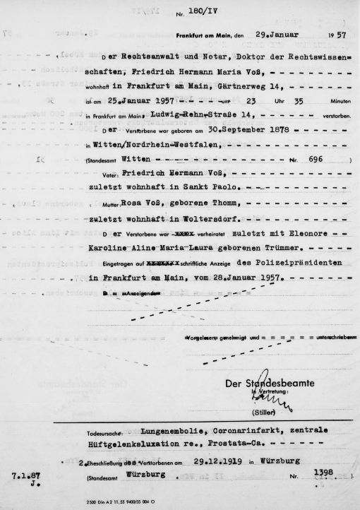 Death Certificate of the lawyer and politician Hermann Voss (1878-1957).